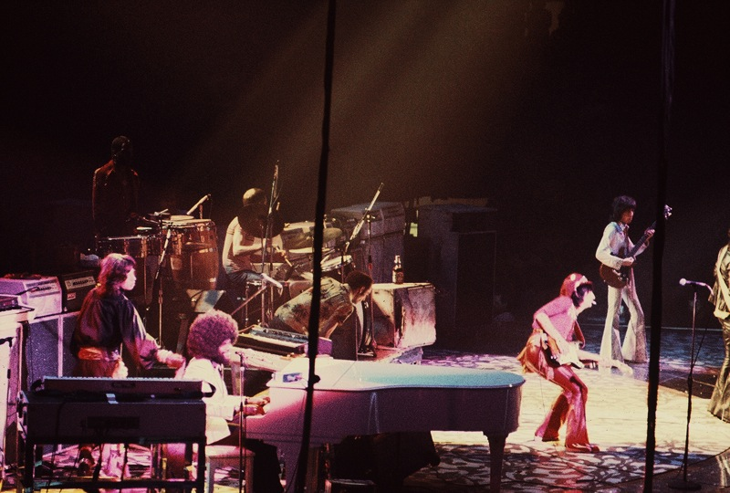 rolling stones 7/23/1975; Billy Preston on keyboards